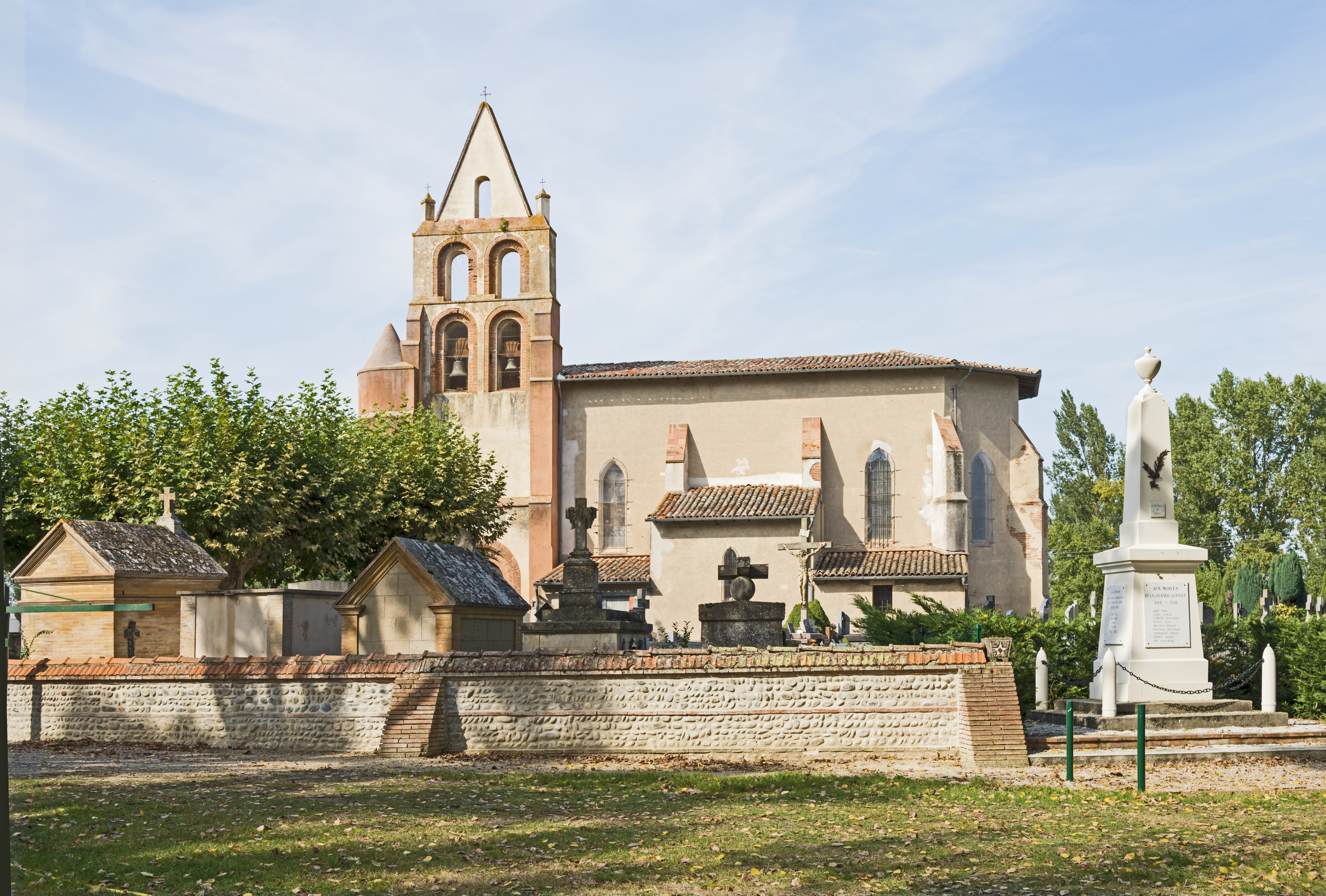 Cépet (Haute-Garonne). The Church.